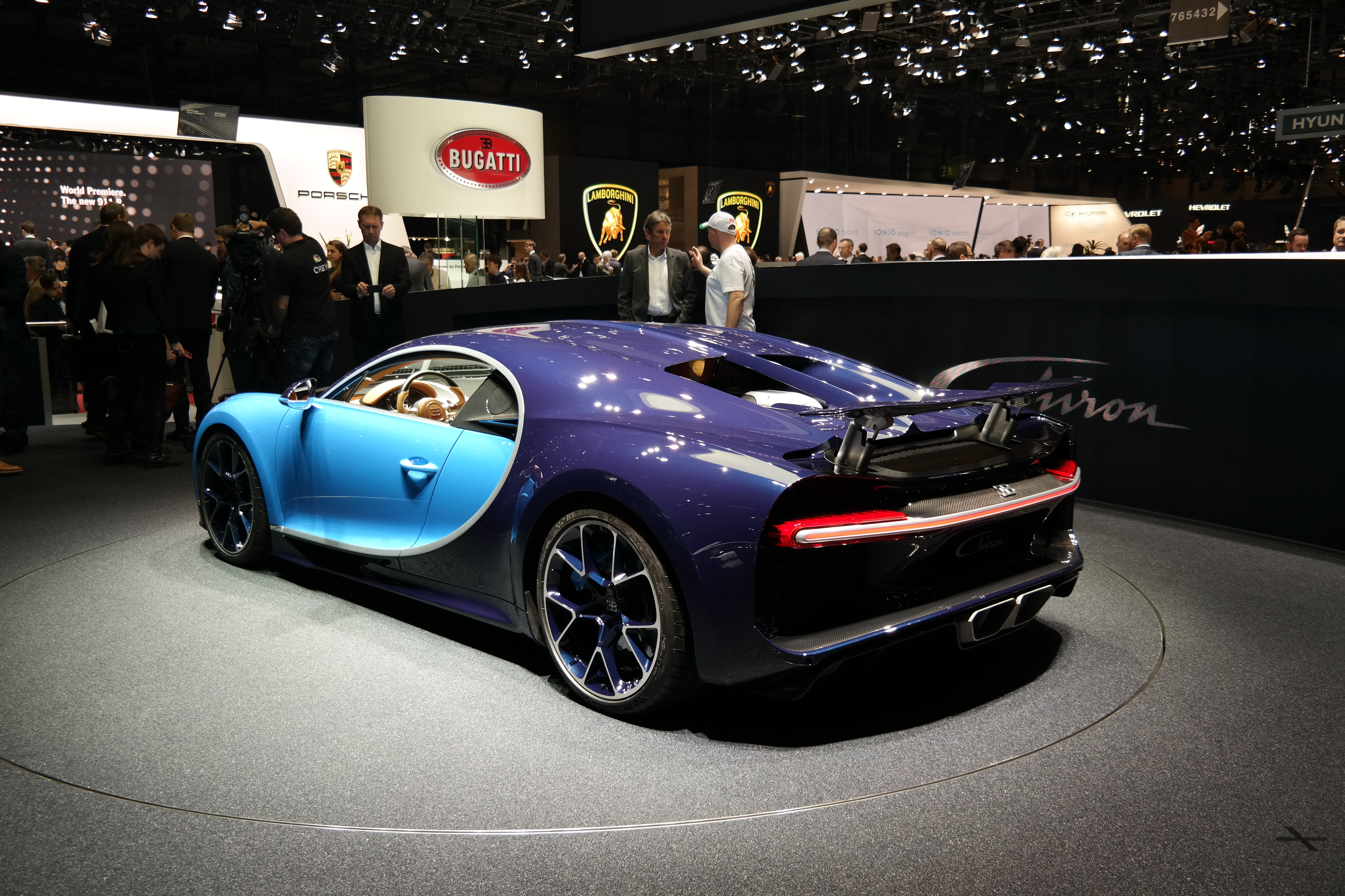 Geneva Motor Show 2016 (photo taken on the first press day)